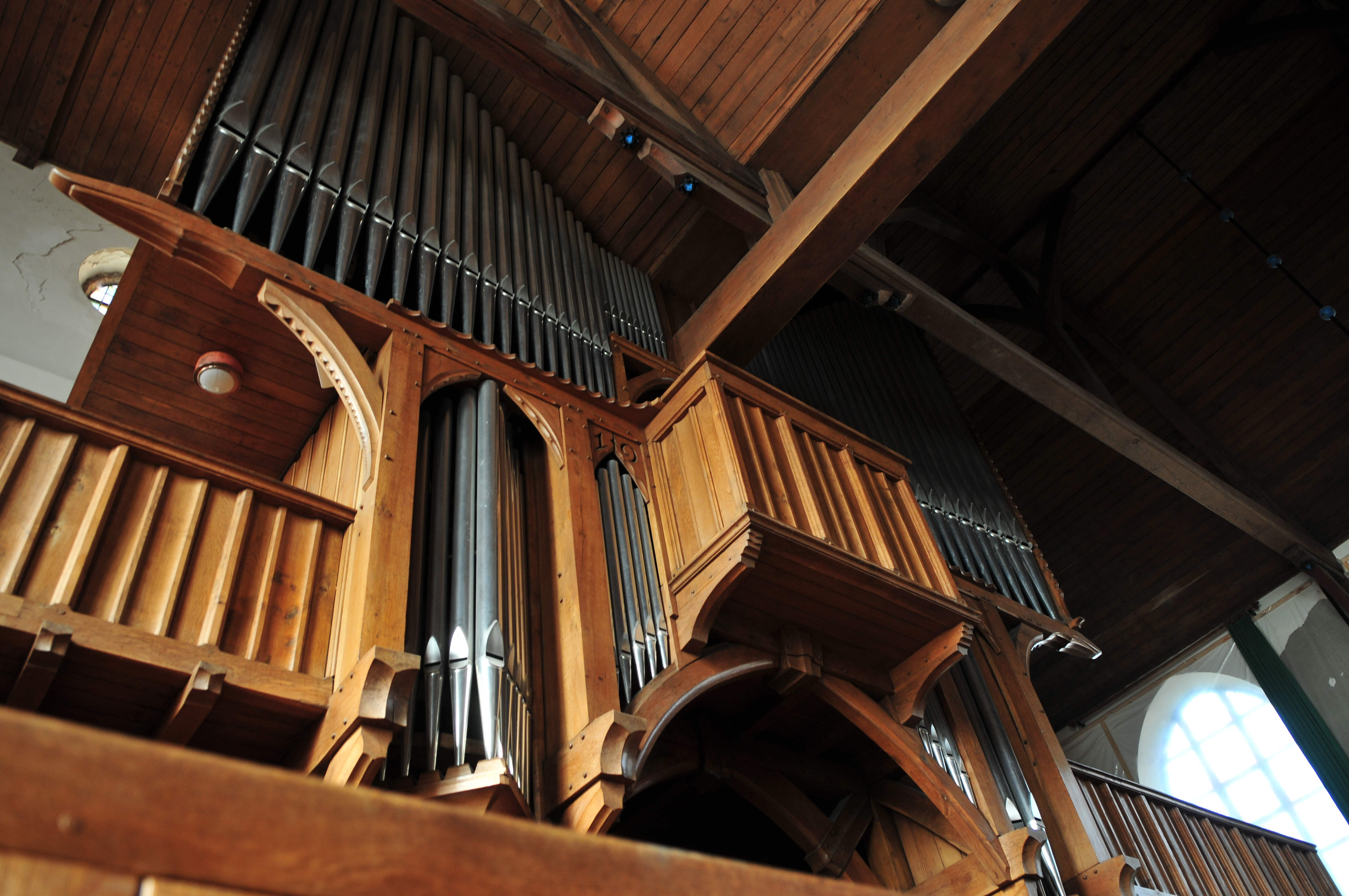 Organ of Andreas church Katwijk